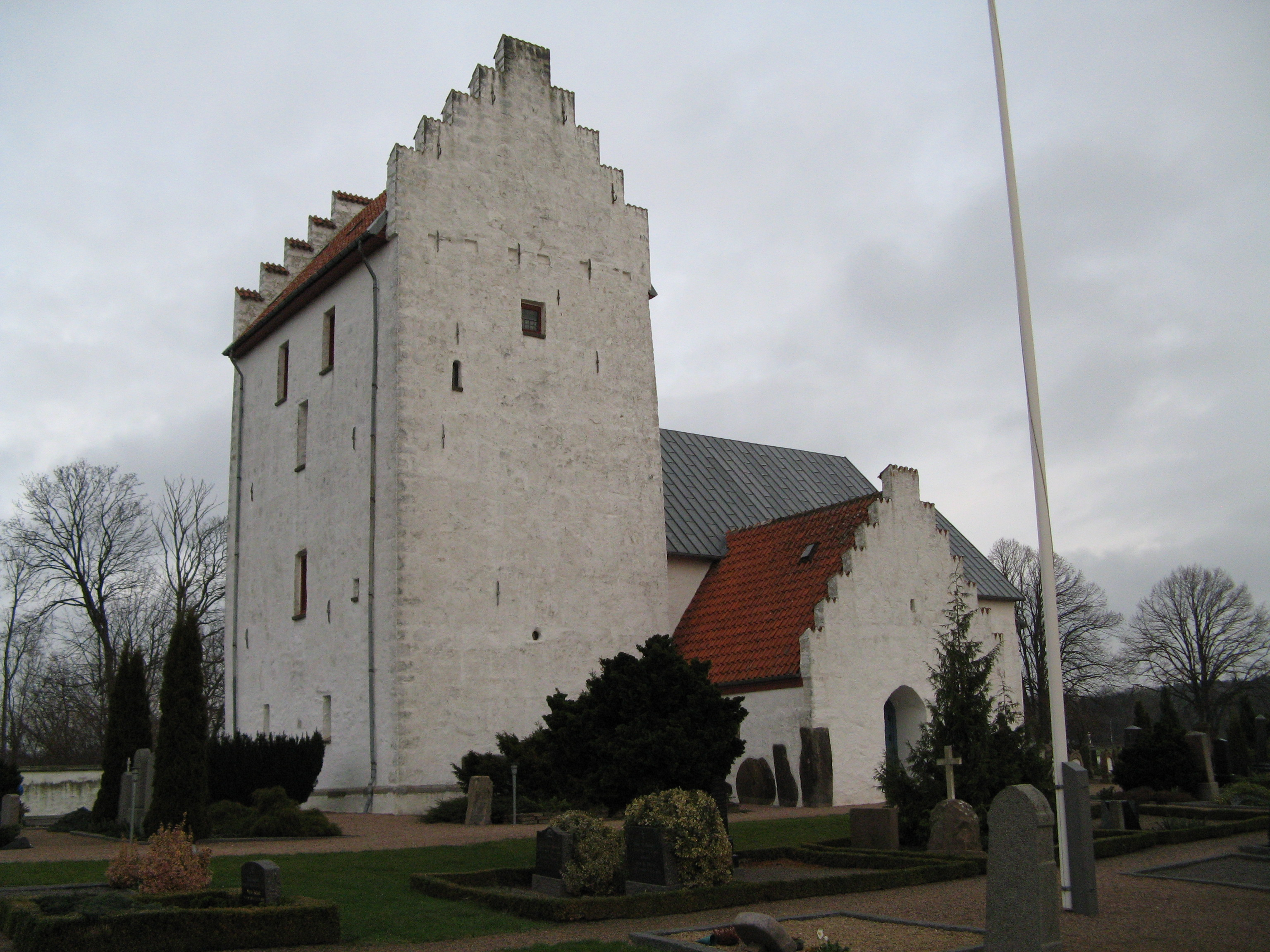 Bodils Kirke, Bornholm